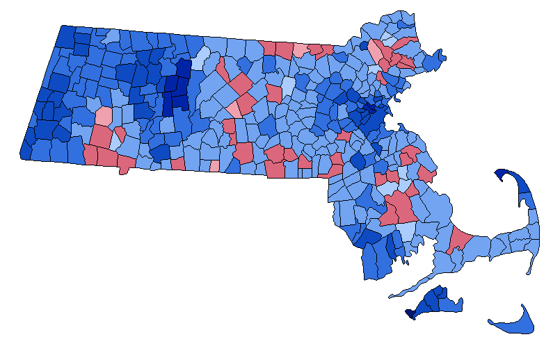 Massachusetts presidential election results by municipality, 2004